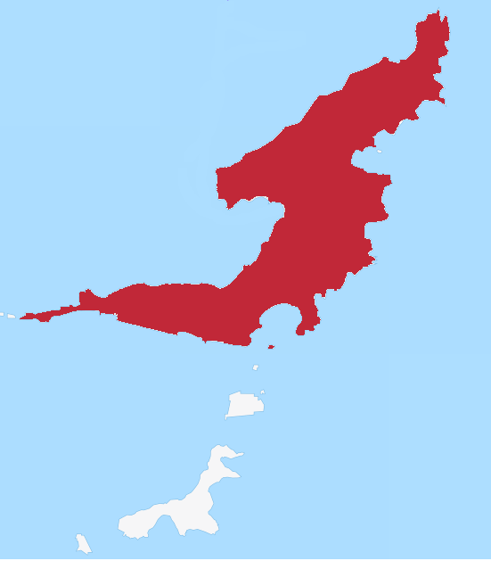 Map of Bequia